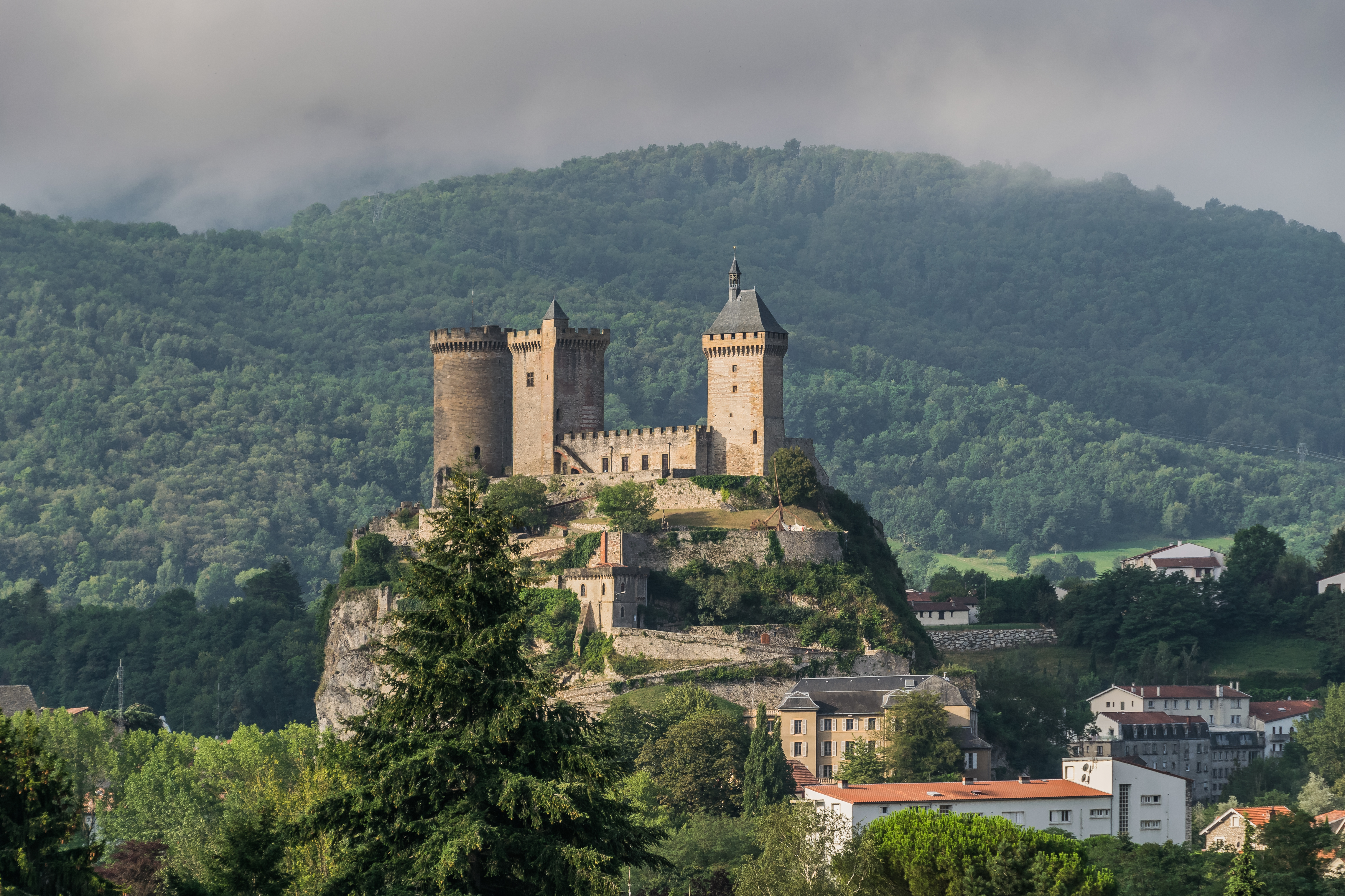 Castle of Foix, Ariège, France .